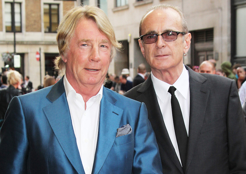 British musicians Rick Parfitt and Francis Rossi at the Bula Quo! UK film premiere, Odeon West End cinema, Leicester Square, London, UK on 1 July 2013.